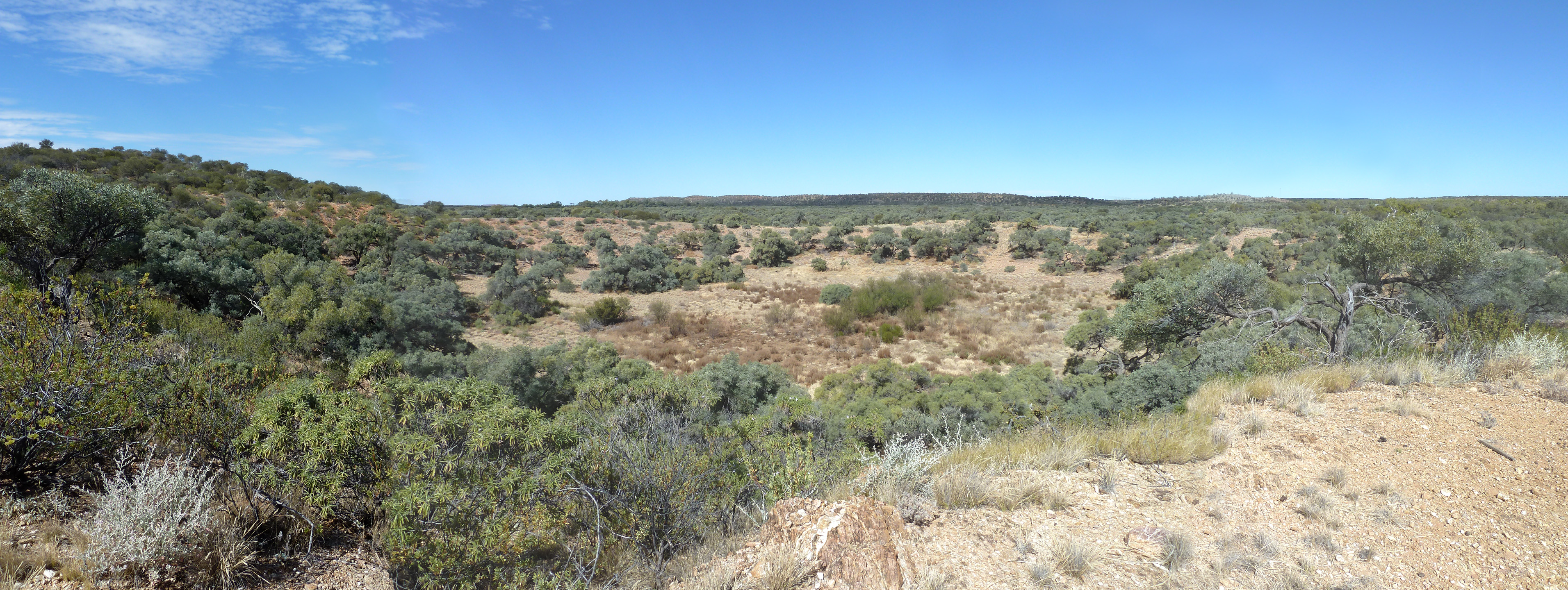 A panorama of Boxhole meteorite crater in the Northern Territory of Australia. Three images taken 10 July 2011, stitched together.